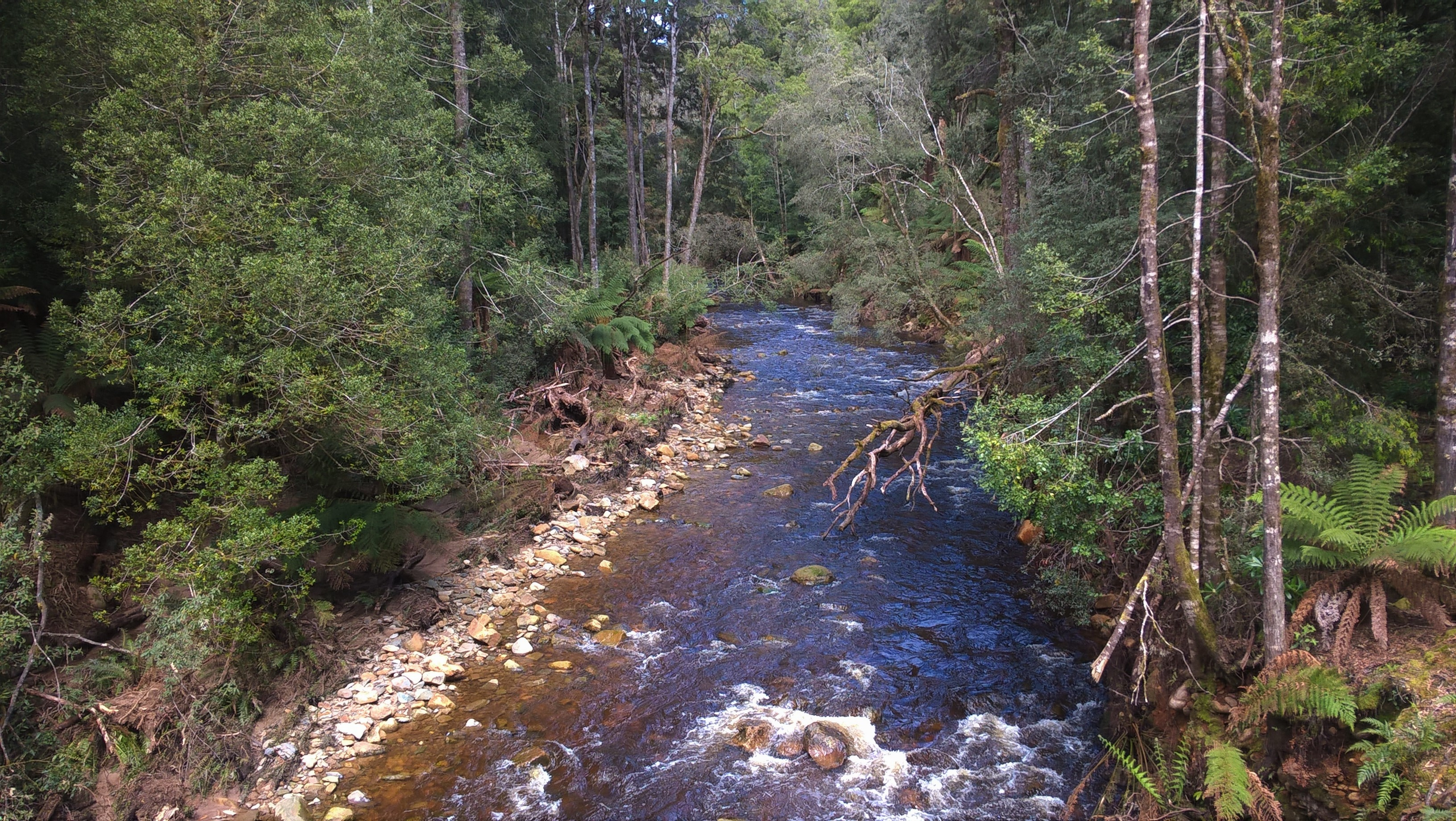 Flowerdale River taken from Meunna Road bridge, facing south.